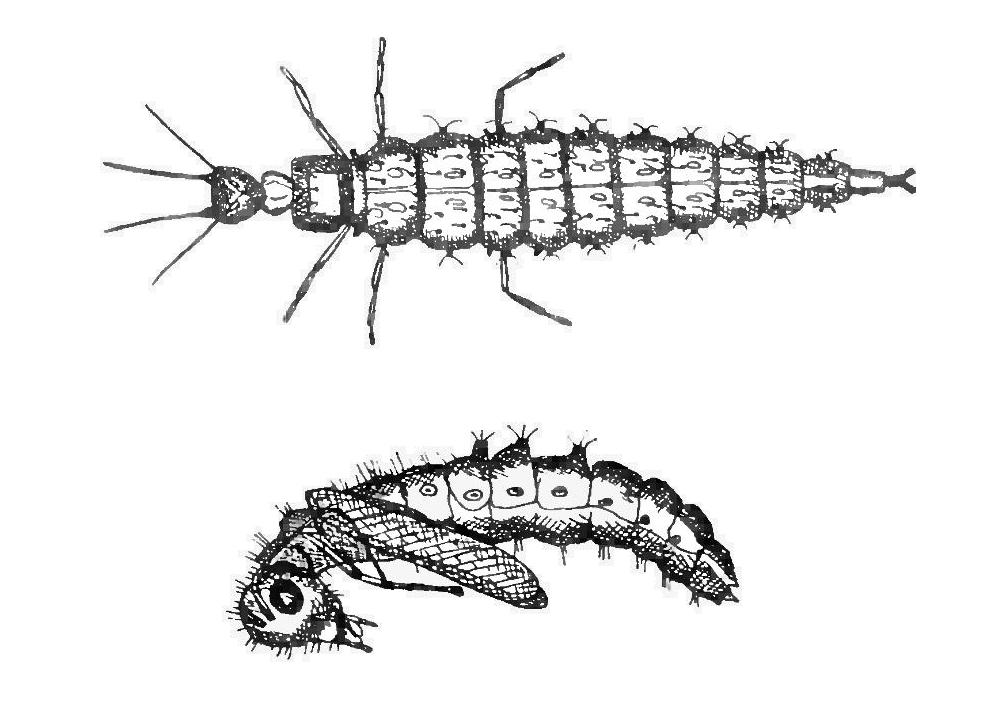 Larva of Osmylus fulvicephalus, Osmylidae, Neuroptera